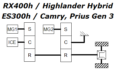 This file was derived from: THS evol 2.png originally by Realarms at English Wikipedia with corrections to reflect actual transmission layout of the P3xx/P4xx/P5xx transaxles (sources for this include and and additional models using this design.